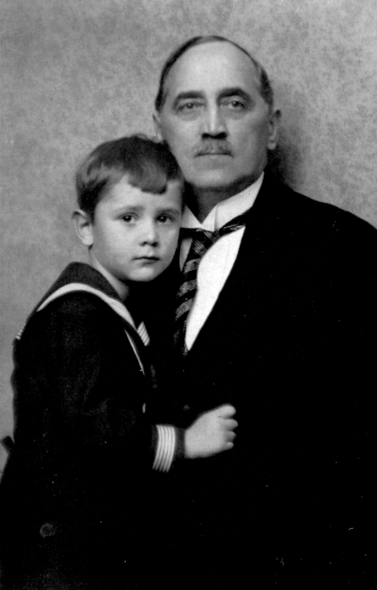 Photograph of the Finnish opera singer Eino Rautavaara (1876–1939) with his son Einojuhani.